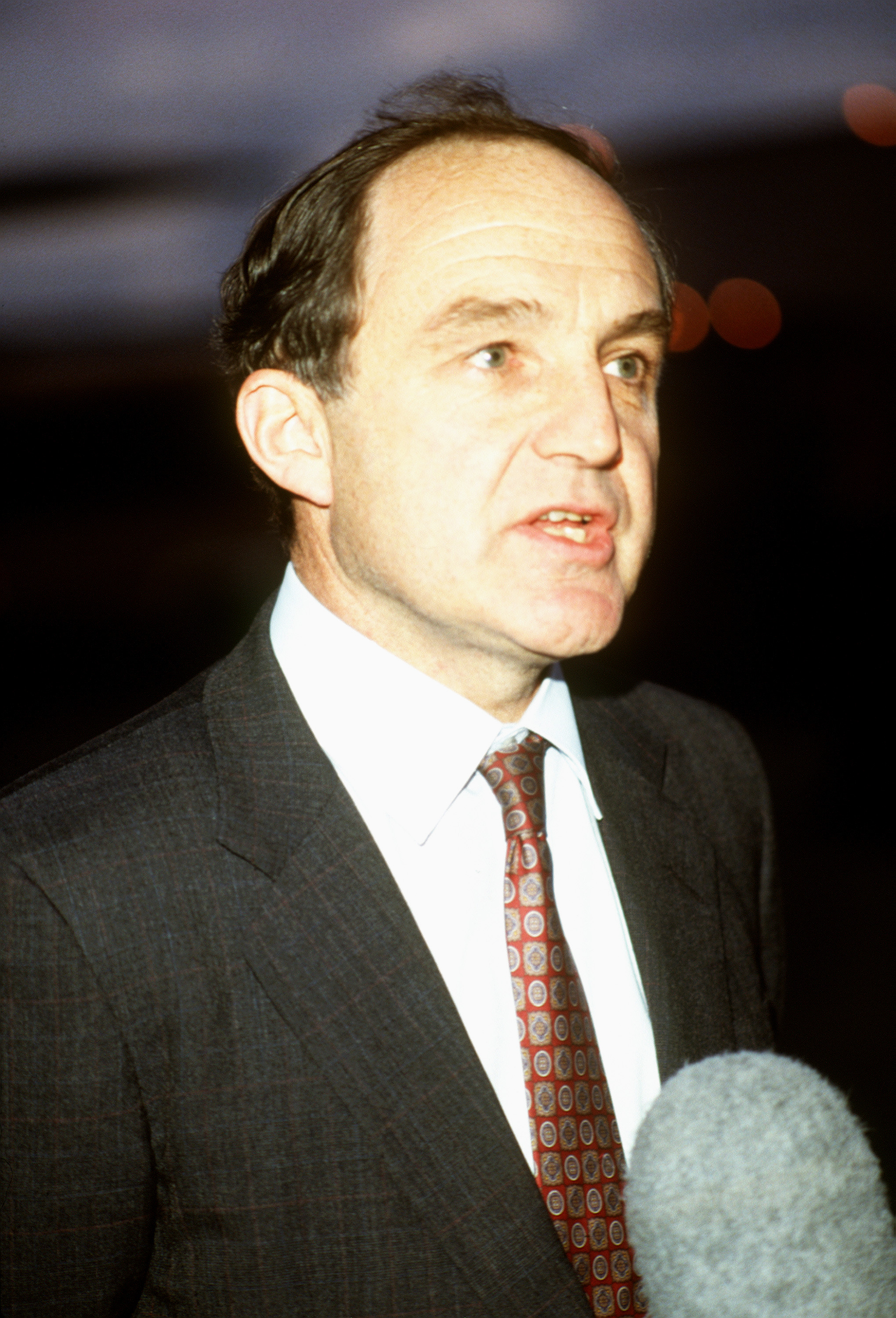 George Younger, British Secretary of State for Defense, speaks to the press upon the arrival at the airport for the NATO Nuclear Planning Group conference.